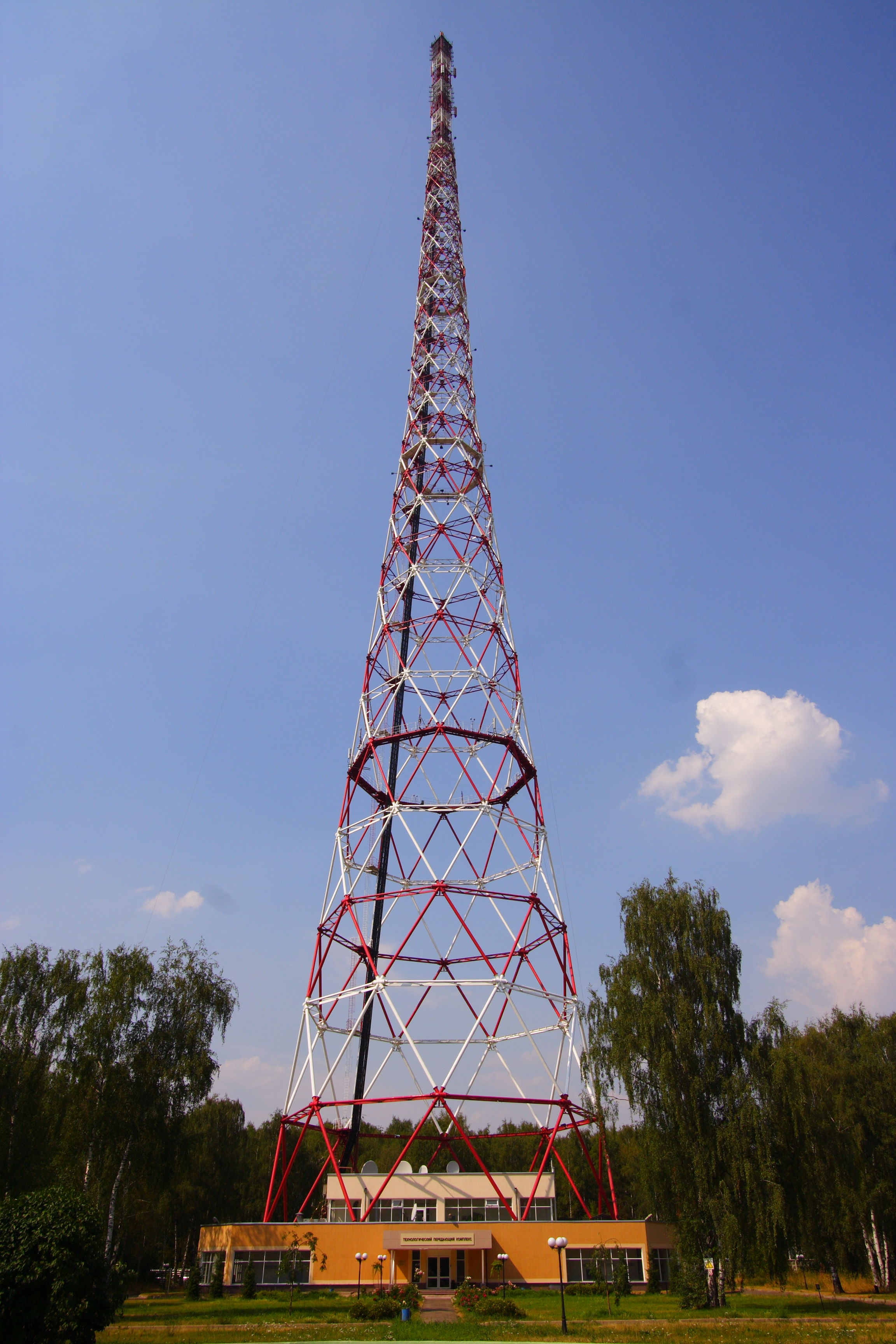 Technological transmitting complex at Oktjabrskij radio centre, Moscow.